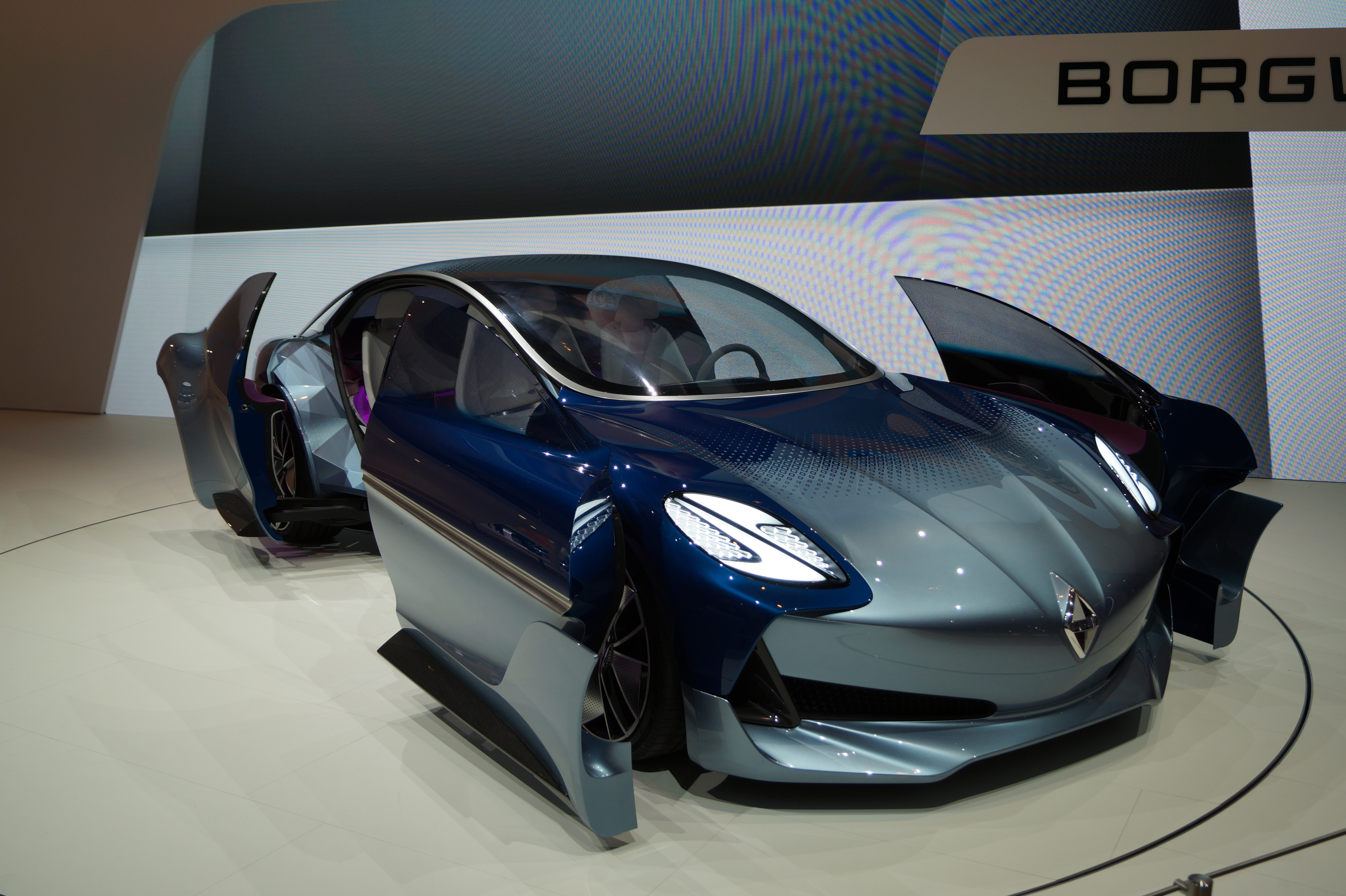 Borgward Isabella at IAA 2017